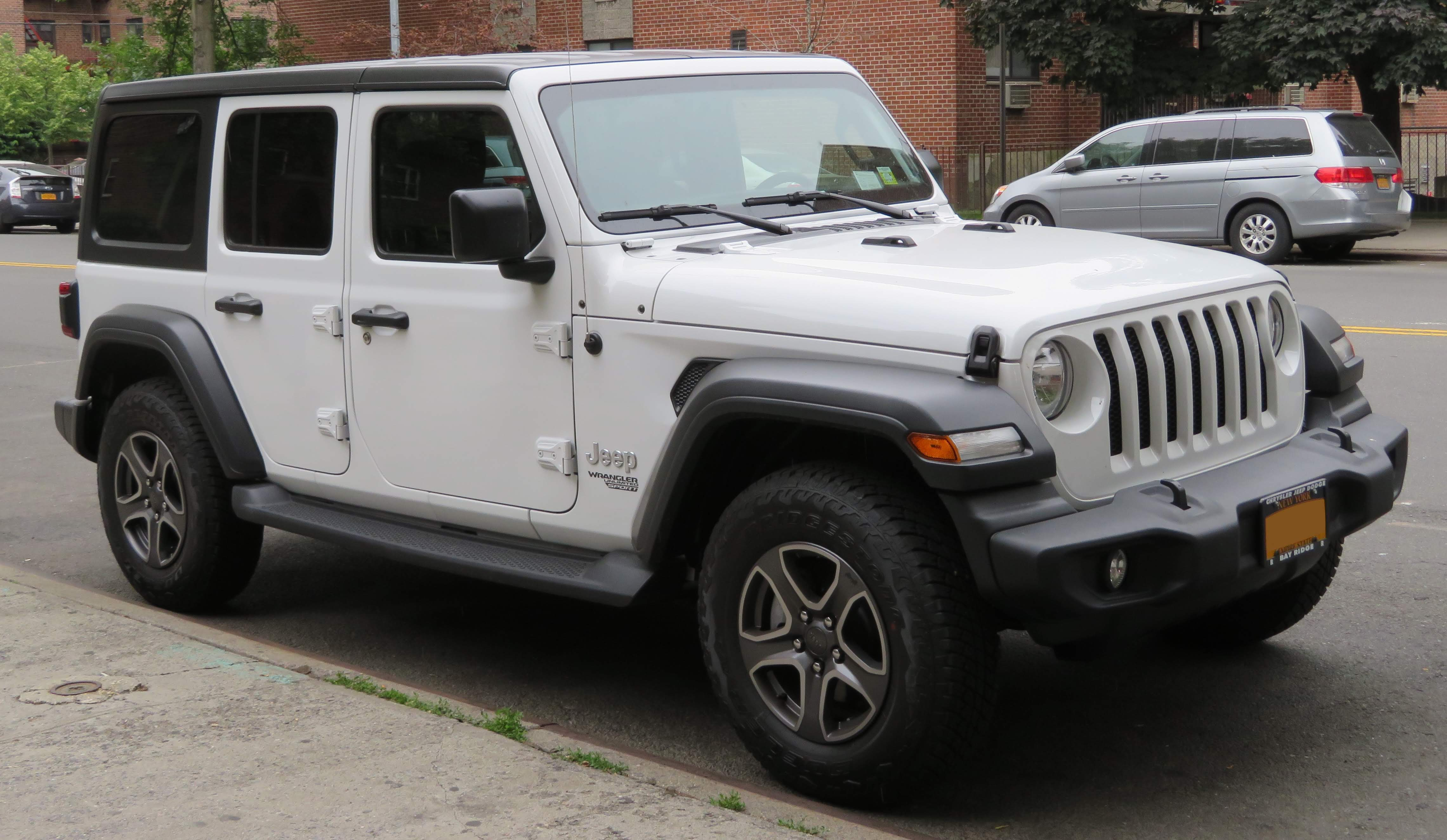 Photographed in Flushing(Queens), New York.